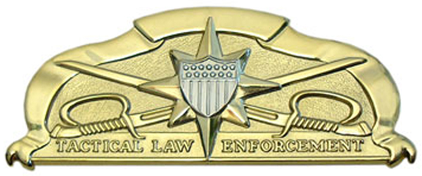 United States Coast Guard Tactical Law Enforcement Badge.